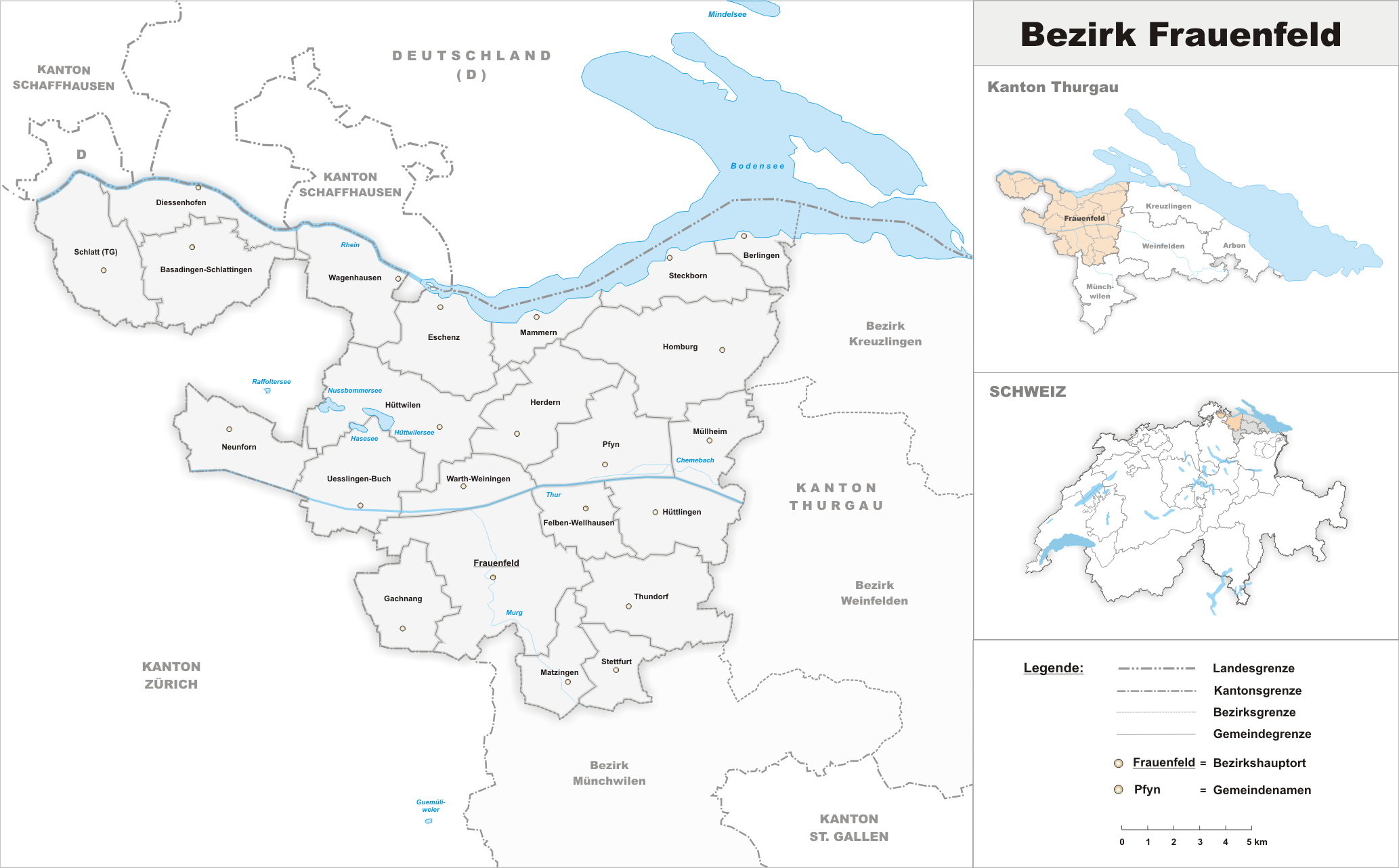 Municipalities in the district of Frauenfeld